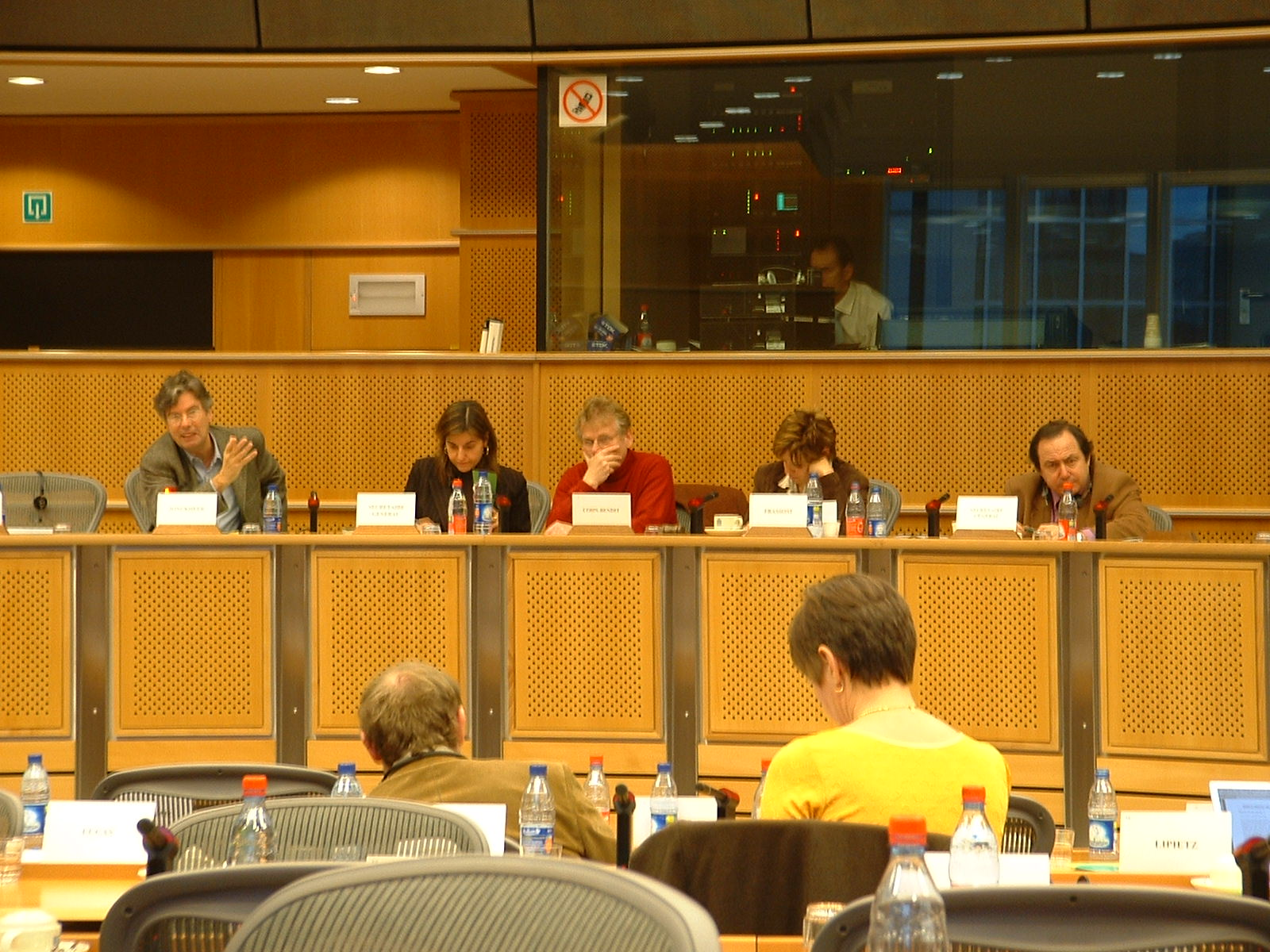 Parliamentary party meeting in European Parliament, Brussels. Left to right: Pierre Jonckheer, Vula Tsetsi, Daniel Cohn-Bendit, Monica Frassoni, Bernat Joan i Marí.